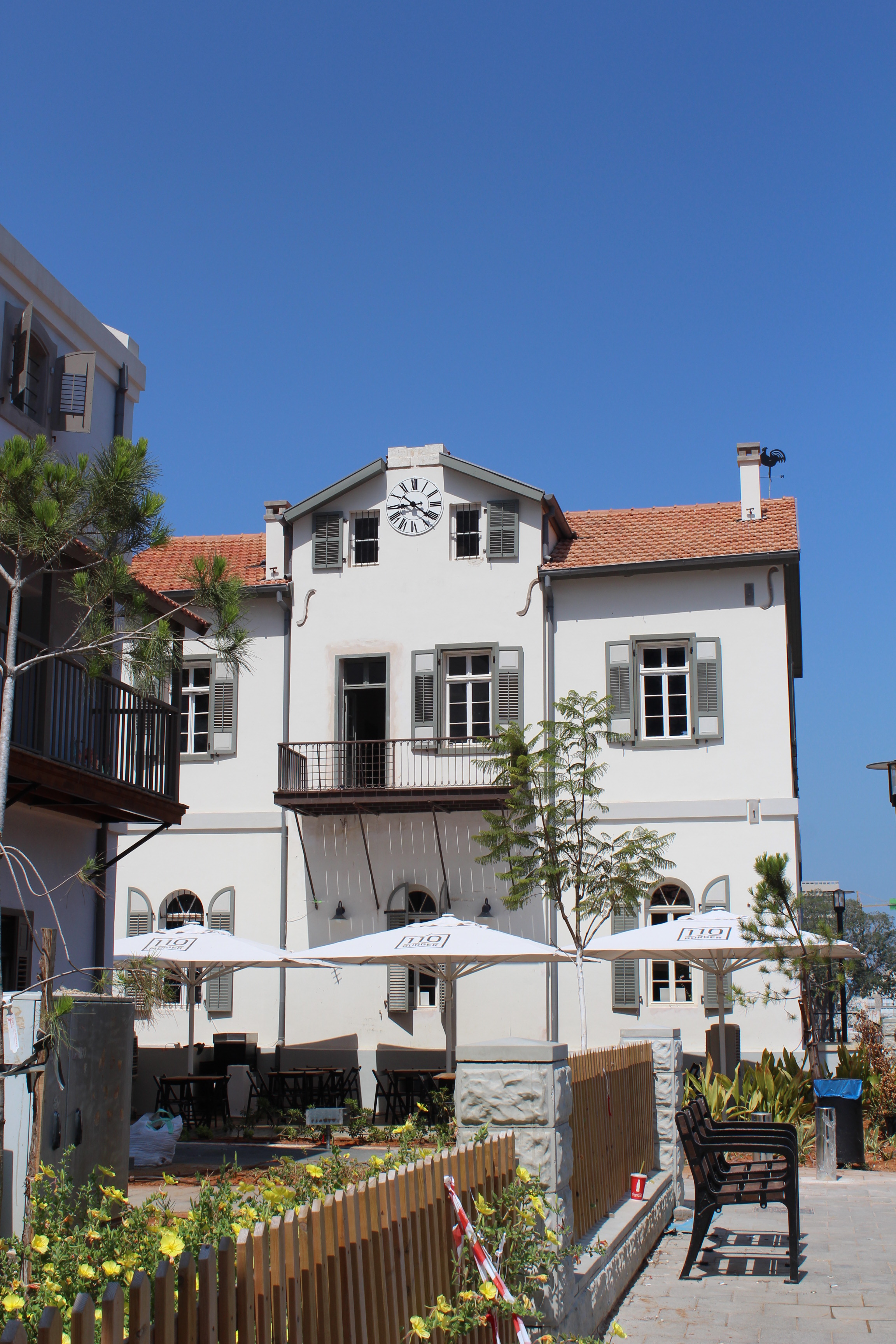 Sarona was a German Templer colony northeast of the city of Jaffa. It was one of the earliest modern villages established in Palestine. Today it is a neighborhood of Tel Aviv, Israel. This image was taken as part of the Elef Millim project trip to Sarona, in Tel Aviv Israel which was held on Friday,27th June 2014. To view all images uploaded as part of the Elef Millim Project